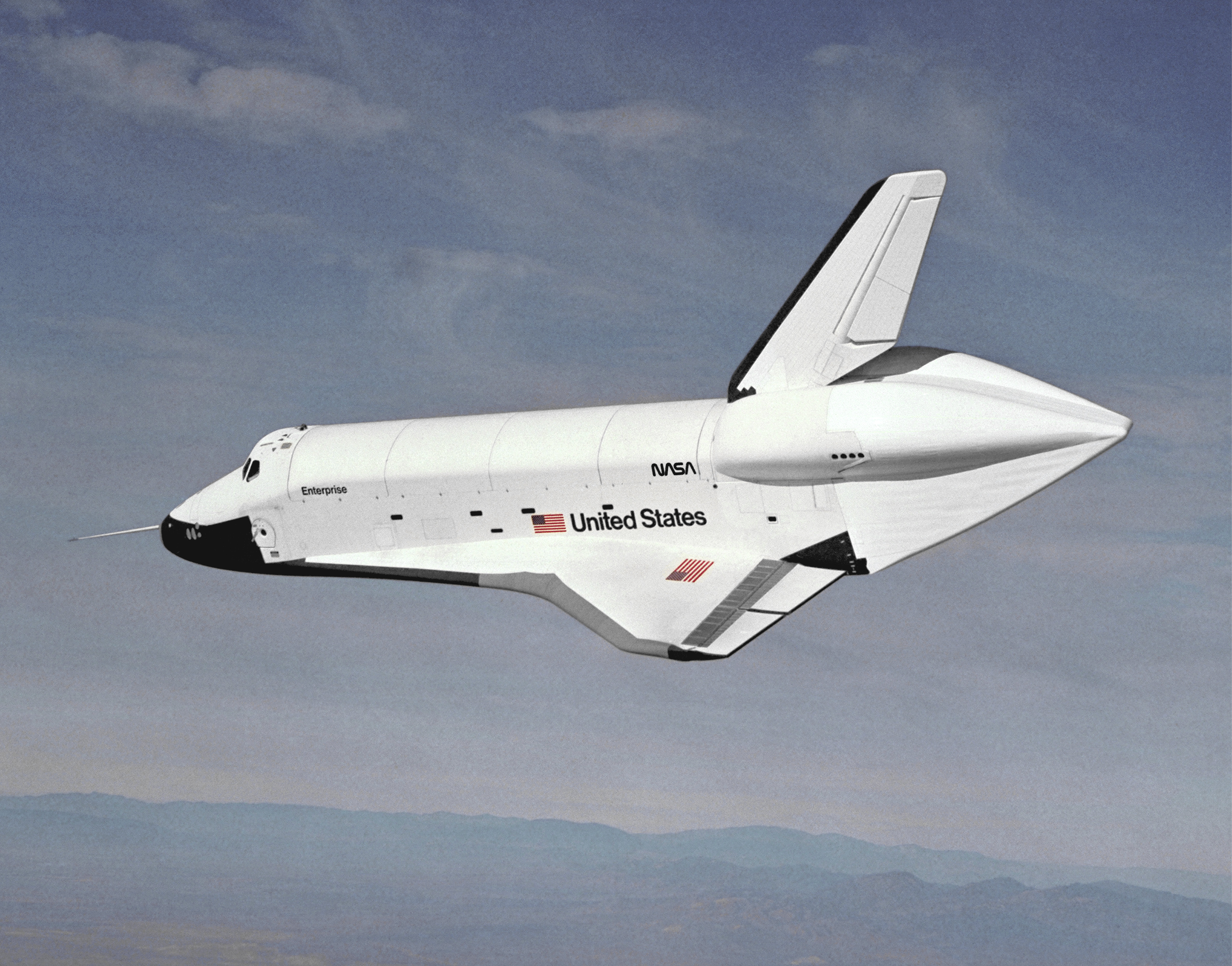 The Space Shuttle prototype Enterprise flies free after being released from NASA's 747 Shuttle Carrier Aircraft (SCA) during one of five free flights carried out at the Dryden Flight Research Center, Edwards, California in 1977, as part of the Shuttle program's Approach and Landing Tests (ALT). The tests were conducted to verify orbiter aerodynamics and handling characteristics in preparation for orbital flights with the Space Shuttle Columbia. A tail cone over the main engine area of Enterprise smoothed out turbulent airflow during flight. It was removed on the two last free flights to accurately check approach and landing characteristics.